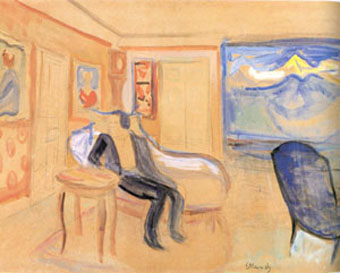 Stage design for Ibsen's Ghosts by Munch